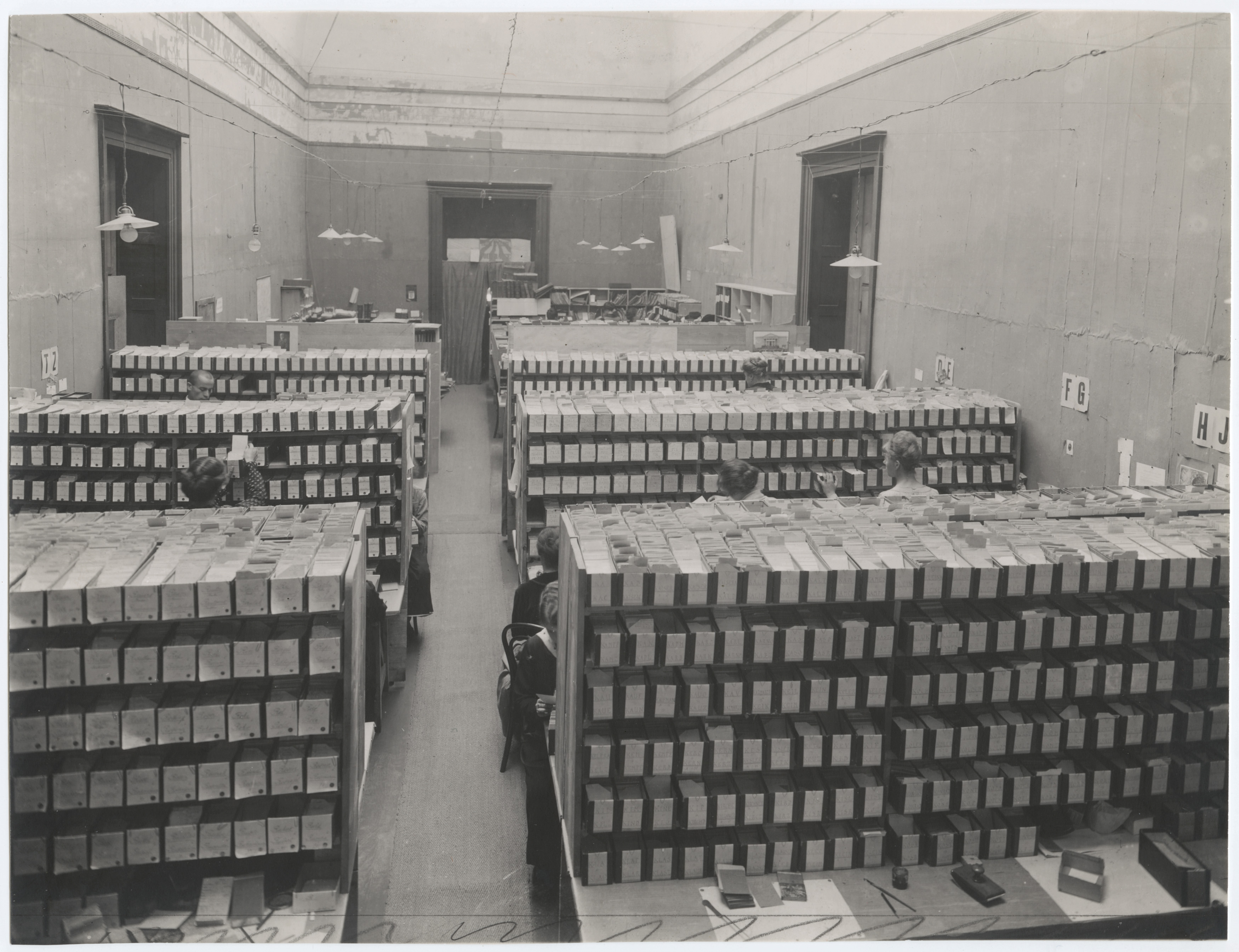 Guerre 1914-1918. Genève, Musée Rath, Agence internationale des prisonniers de guerre. Service de recherches. Service allemand. World War I. Geneva, Rath Museum, International agency for prisoners of war. Tracing service. German section.